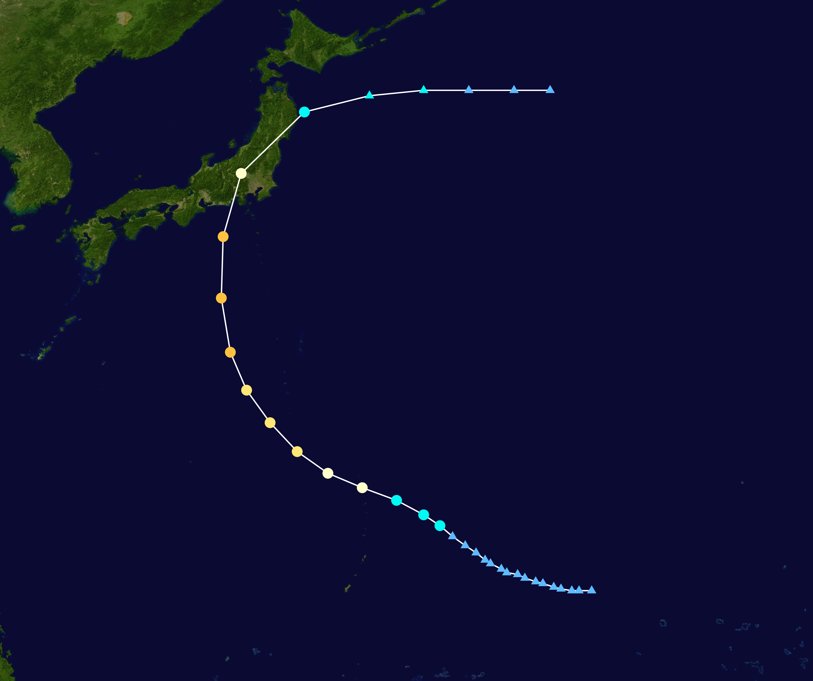 Track map of Typhoon Ida of the 1966 Pacific typhoon season. The points show the location of the storm at 6-hour intervals. The colour represents the storm's maximum sustained wind speeds as classified in the Saffir-Simpson Hurricane Scale (see below), and the shape of the data points represent the nature of the storm, according to the legend below. Saffir–Simpson hurricane wind scale Tropical depression≤38 mph≤62 km/h Category 3111–129 mph178–208 km/h Tropical storm39–73 mph63–118 km/h Category 4130–156 mph209–251 km/h Category 174–95 mph119–153 km/h Category 5≥157 mph≥252 km/h Category 296–110 mph154–177 km/h Unknown Storm typeTropical cycloneSubtropical cycloneExtratropical cyclone / Remnant low / Tropical disturbance